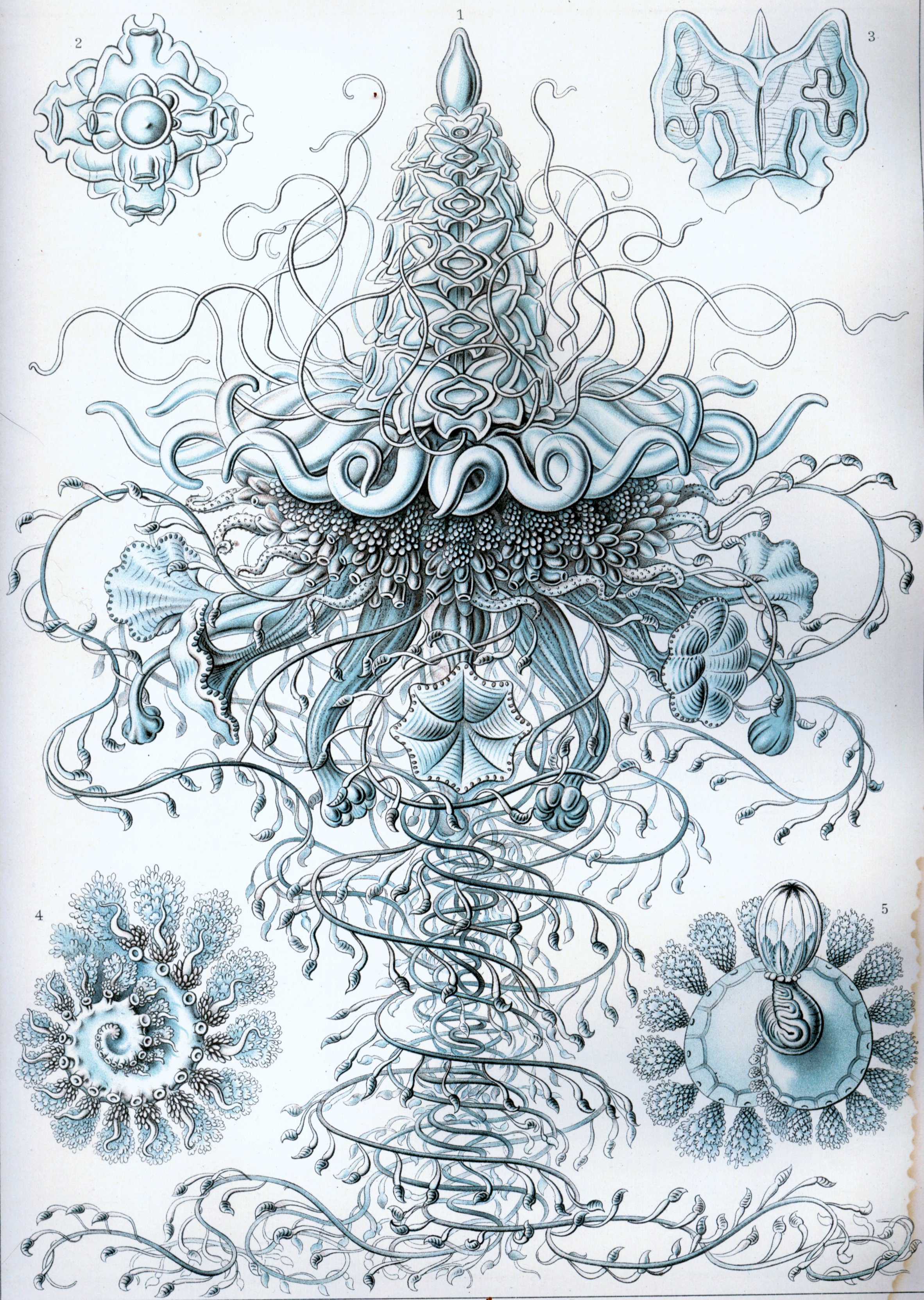 (center): Discolabe quadrigata (Haeckel) = Physophora hydrostatica Forskål, 1775, colony (top left): Discolabe quadrigata (Haeckel) = Physophora hydrostatica Forskål, 1775, gas bladder and bells from above (top right): Discolabe quadrigata (Haeckel) = Physophora hydrostatica Forskål, 1775, single swimming bell from above (bottom left): Discolabe quadrigata (Haeckel) = Physophora hydrostatica Forskål, 1775, trunk without polyps from below (bottom right): Discolabe quadrigata (Haeckel) = Physophora hydrostatica Forskål, 1775, trunk without polyps from above